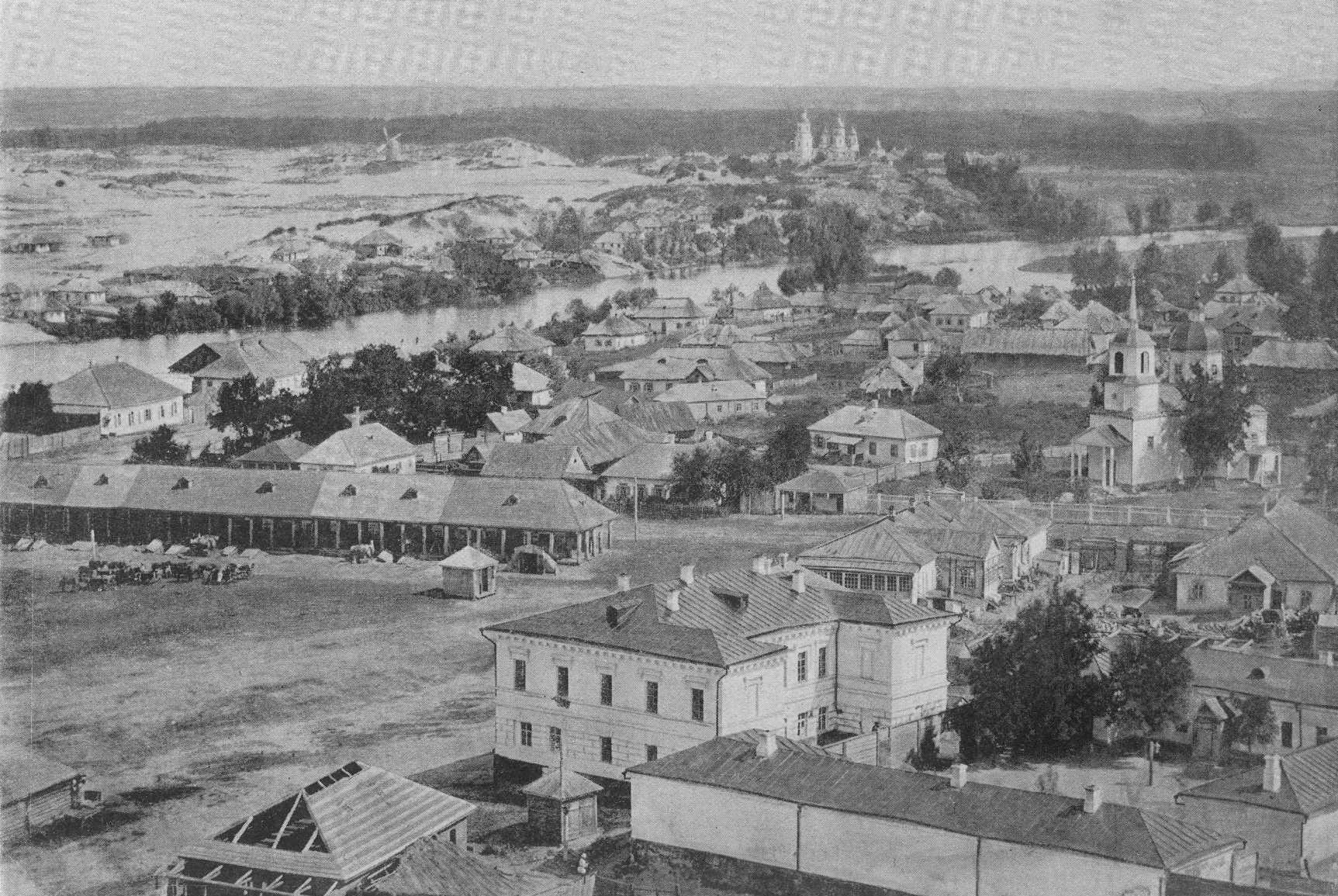 Chyhyryn, 1902